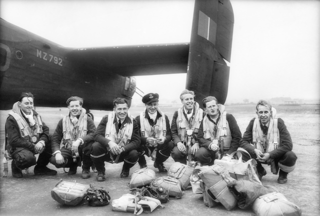 AWM caption : YORKSHIRE, ENGLAND. 1944-09-05. CREW OF A HALIFAX BOMBER AIRCRAFT OF NO. 466 SQUADRON RAAF, BASED AT RAF STATION DRIFFIELD, ARE VERY HAPPY ABOUT THE RESULT OF THEIR ATTACK ON ENEMY SYNTHETIC OIL PLANT IN THE RUHR. LEFT TO RIGHT: PILOT OFFICER (PO) S. SHOEMAKER, CANADA RAF 422181 PO W. A. HINES, SYDNEY, NSW 207838 SQUADRON LEADER B. J. MCDERMOTT DFC, SYDNEY, NSW RAF RAF RAF